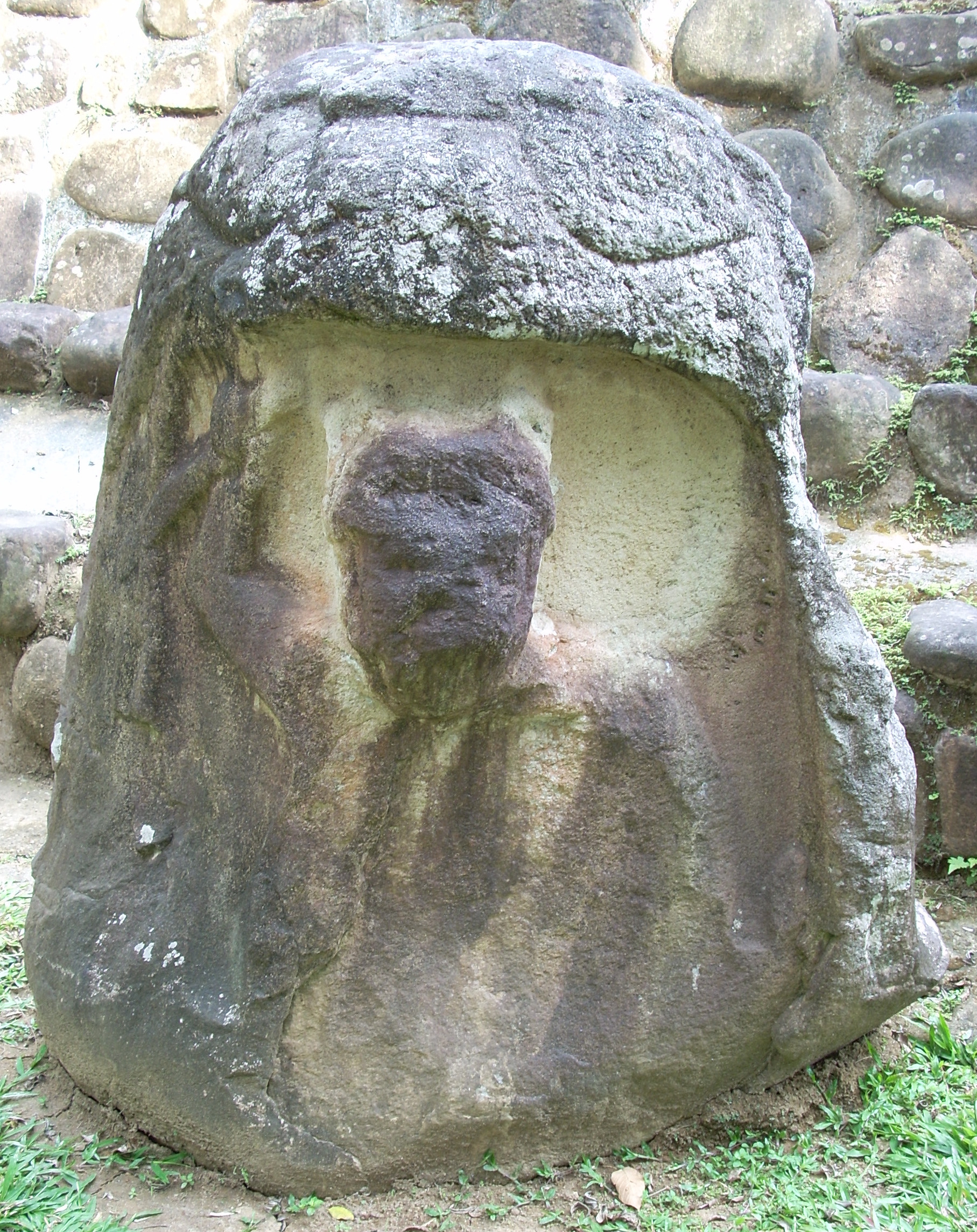 Monument 67 from Takalik Abaj, in Olmec style.